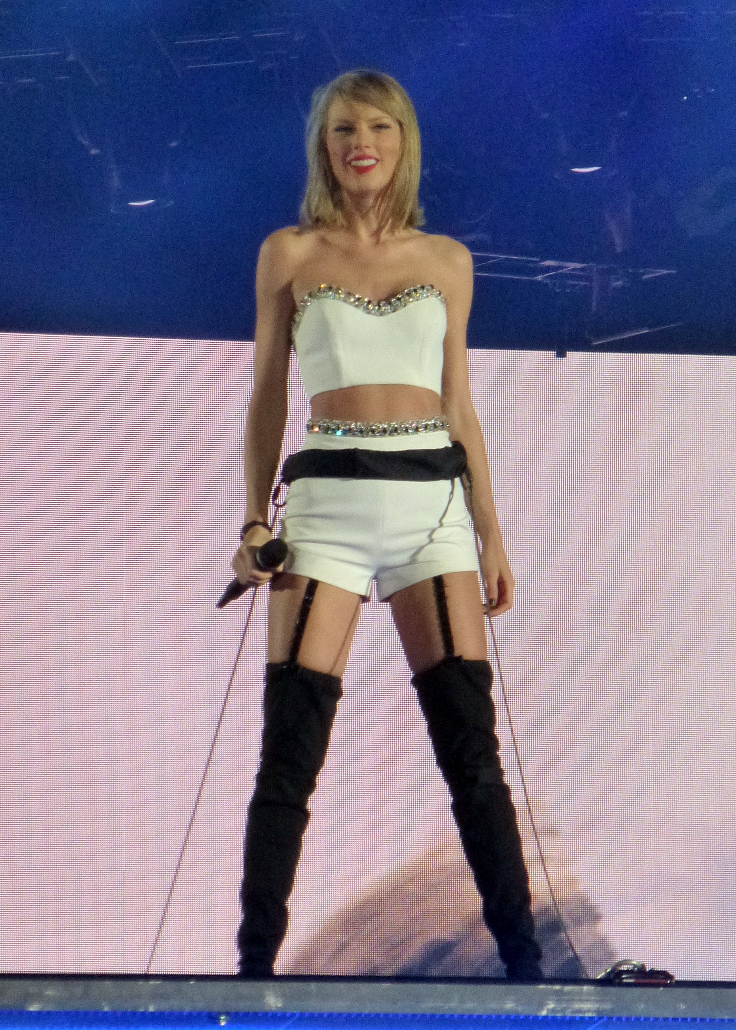 Taylor Swift 1989 Tour at Ford Field in Detroit, 5/30/15